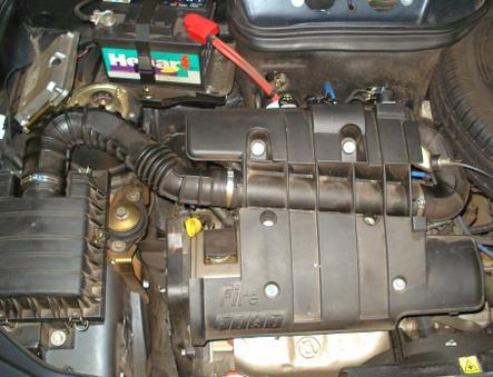 Fiat FIRE engine in a Brazilian-built Fiat Uno/Mille